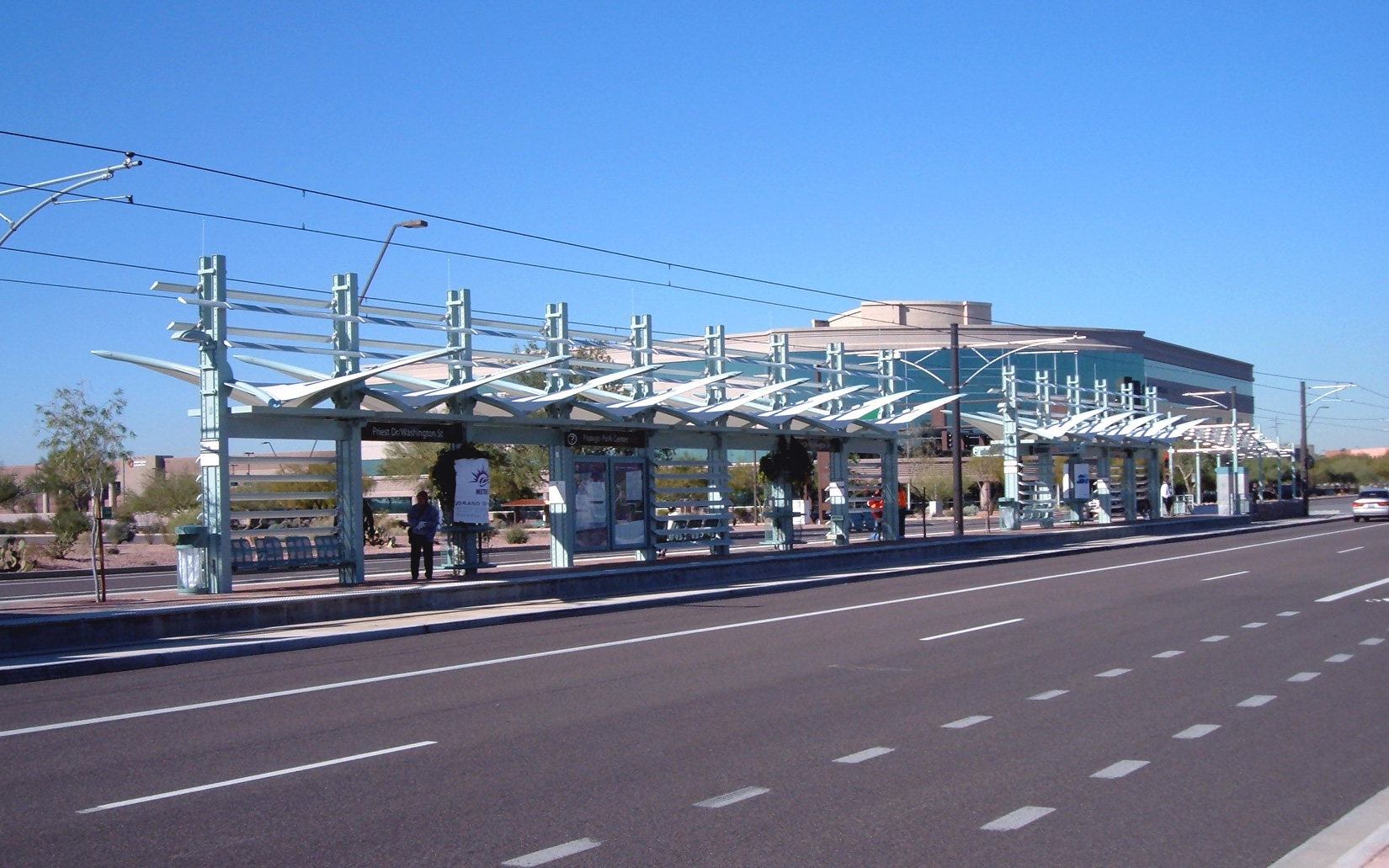 Photograph of the Papago Park Center (or Washington at Priest) Station of METRO Light Rail that serves the Phoenix area, Arizona, USA. This photograph was taken during the light rail's grand opening celebration on December 28, 2008.